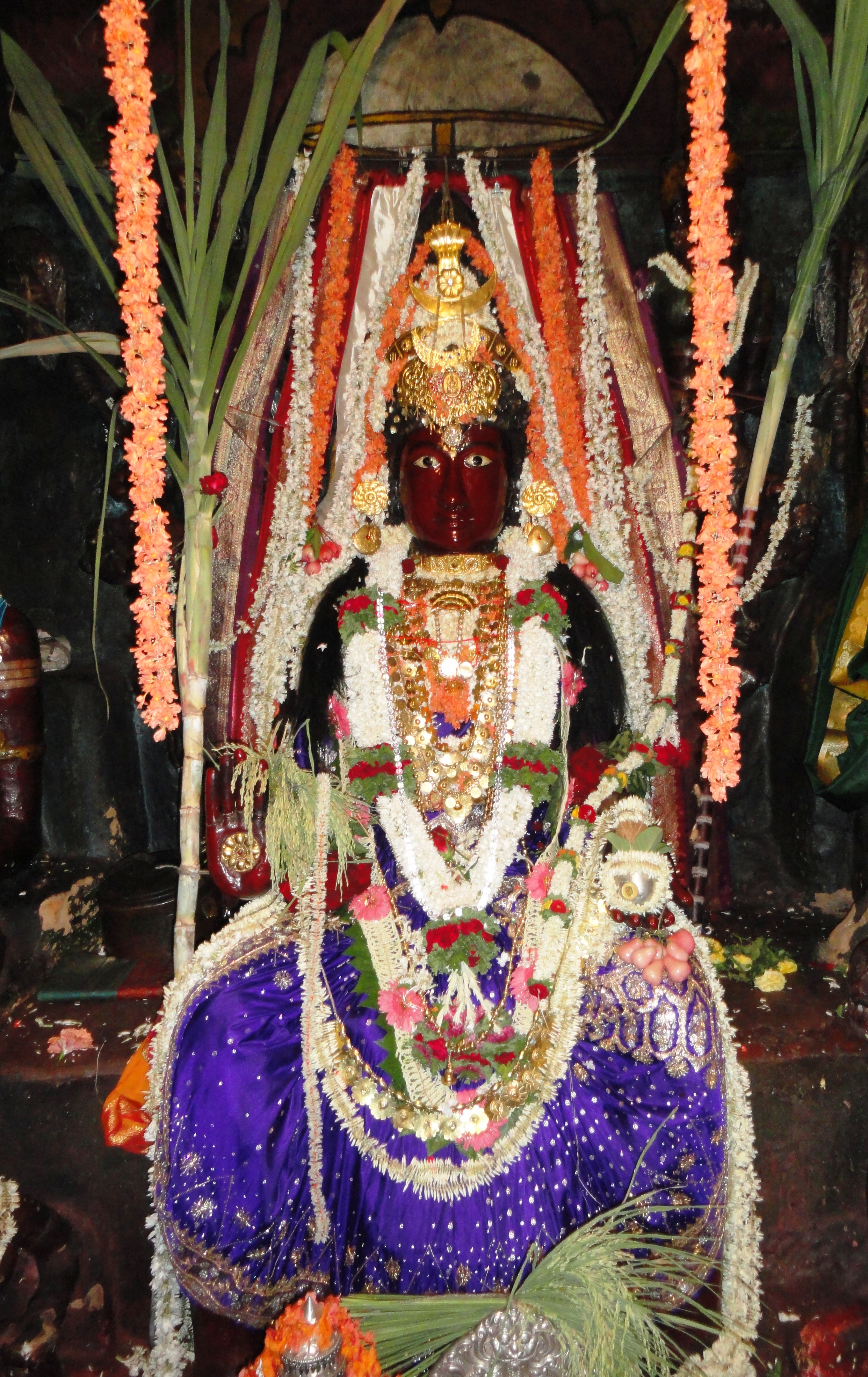 Polali Shri Rajarajeshwari